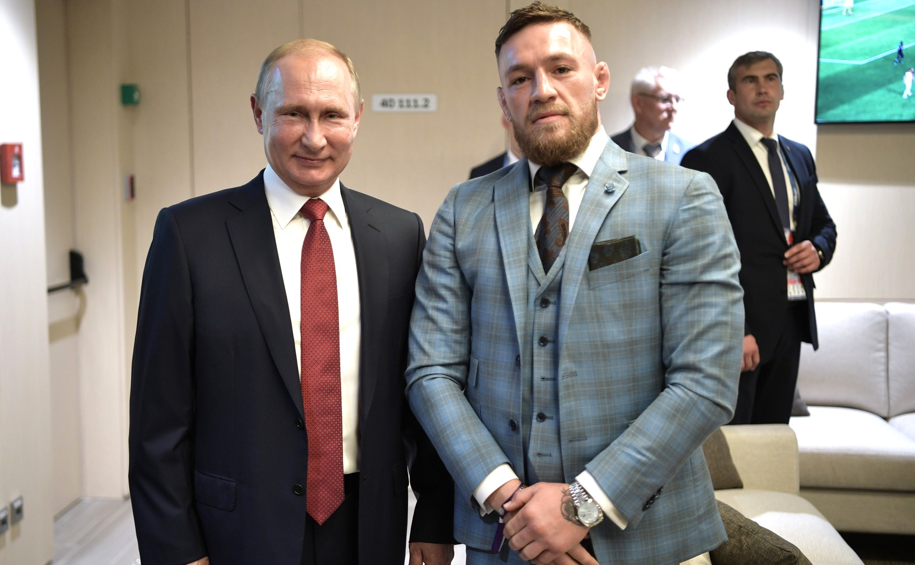 Conor McGregor and Vladimir Putin attended the final match of the 2018 FIFA World Cup at Luzhniki stadium in Moscow